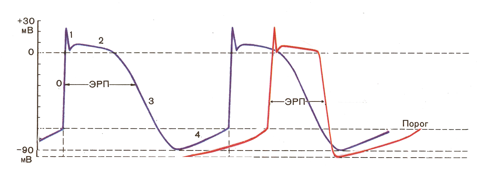 Ib_influence on an action potential of Purkine fibres